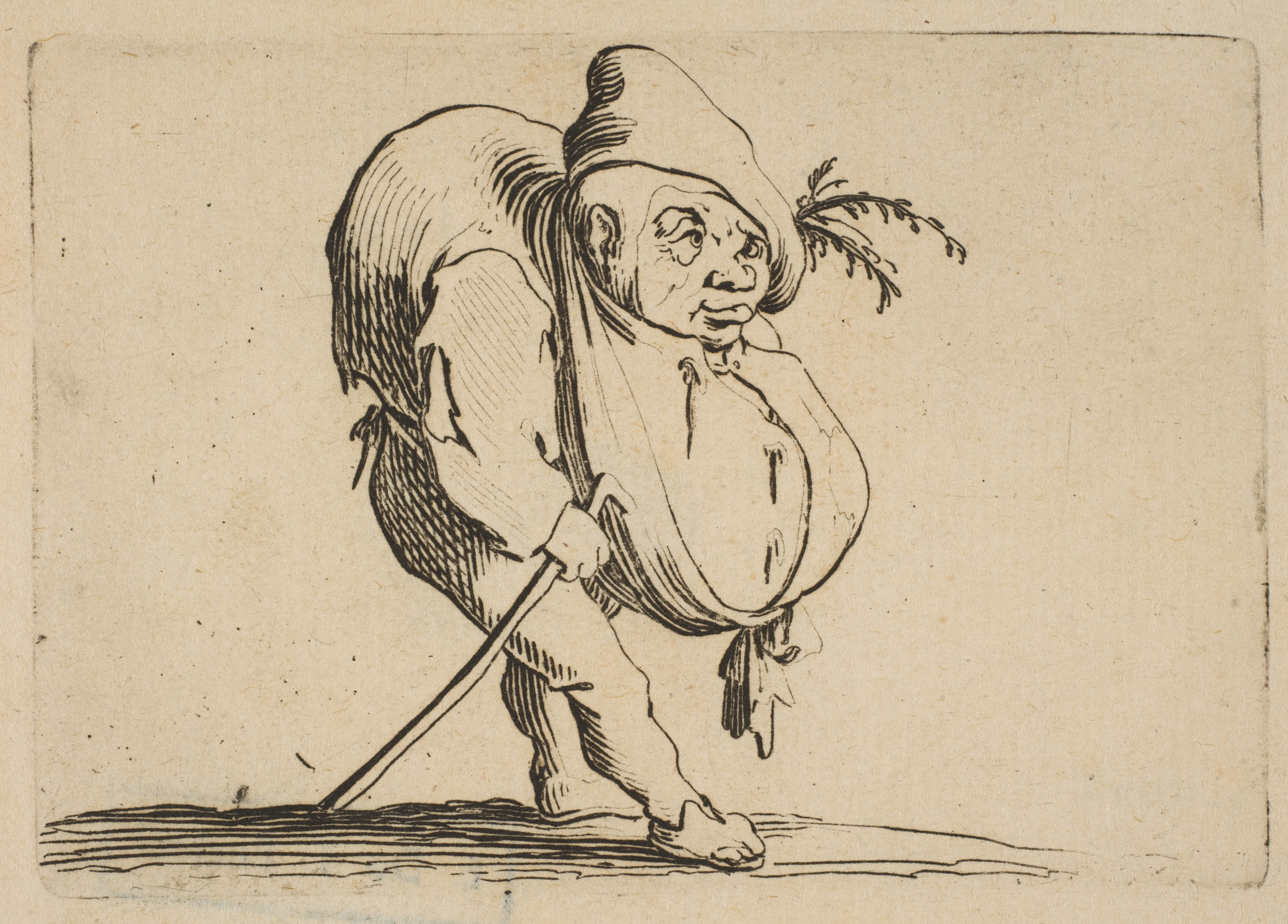 Print; Prints